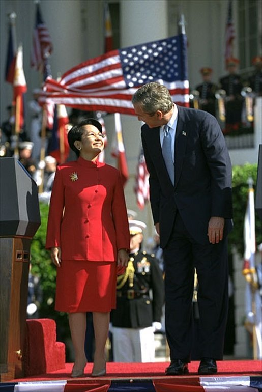 Philippine President Gloria Macapagal-Arroyo with U.S. President George W. Bush during a ceremony on the South Lawn of the White House.